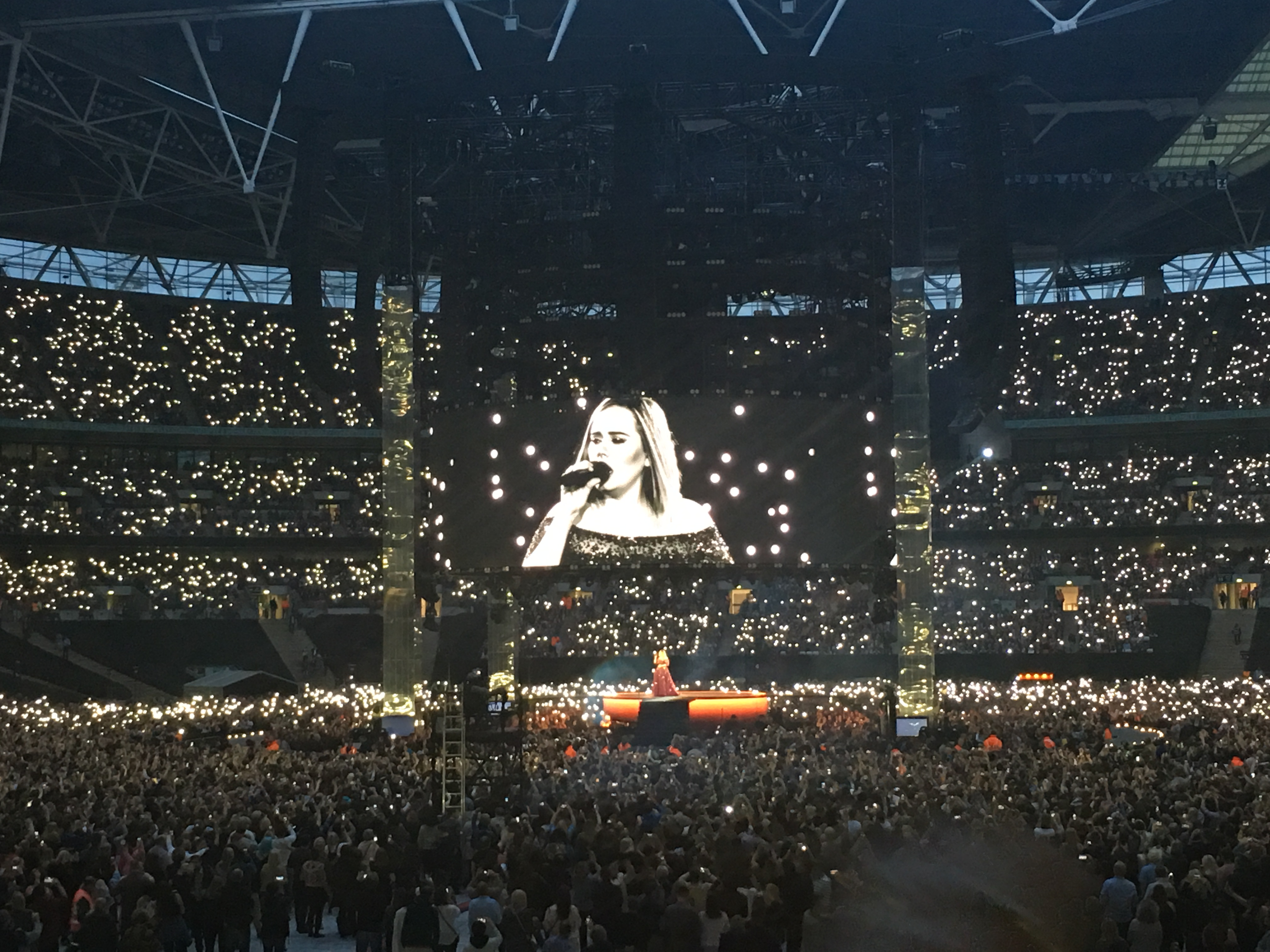 Adele performinG Make You Feel My Love in London at WEMBLEY Stadium on her unexpected final day of her WORLD Tour